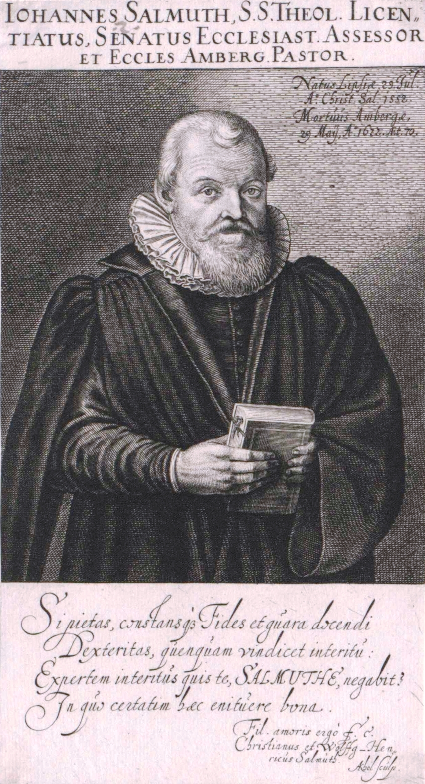 Johann Salmuth (1552–1622)